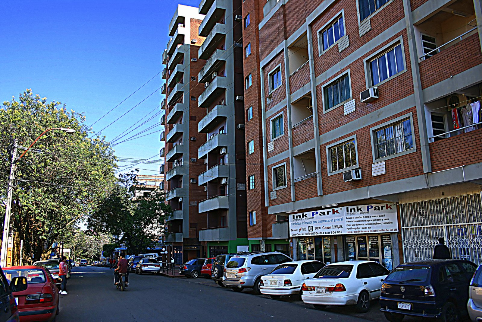 Ciudad del Este downtown street scene.